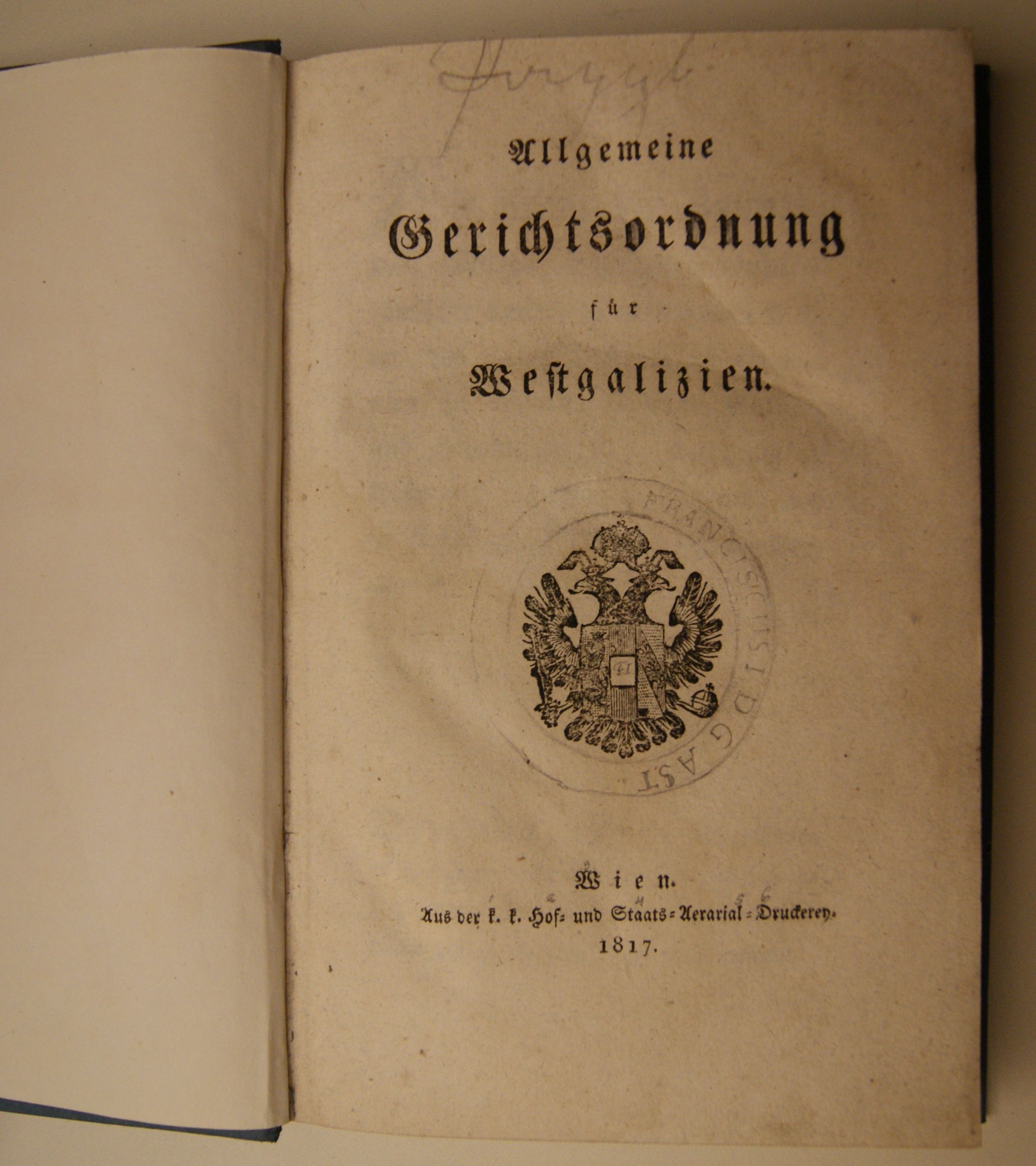 First book page from the West Galician code of civil procedure (also: code of civil procedure Westgalicia). This was an expanded and improved version of the General code of civil procedure (AGO) of 1781 and was introduced in a pilot basis as "General code of civil procedure for Western Galicia" in West Galicia in 1796. This version was about 40% more comprehensive (619 paragraphs in 43 chapters) as the final version of the AGO 1781. In 1815-1816, when Tyrol, Vorarlberg, Salzburg, and other territories were returned to Austria after the defeat of Napoleon Bonaparte, the West Galician code of civil procedure was also introduced to this part of Austria, while the AGO continued to exist in the other Crown countries. The book was printed in Vienna in 1817. Photograph made in the Vorarlberger state library.